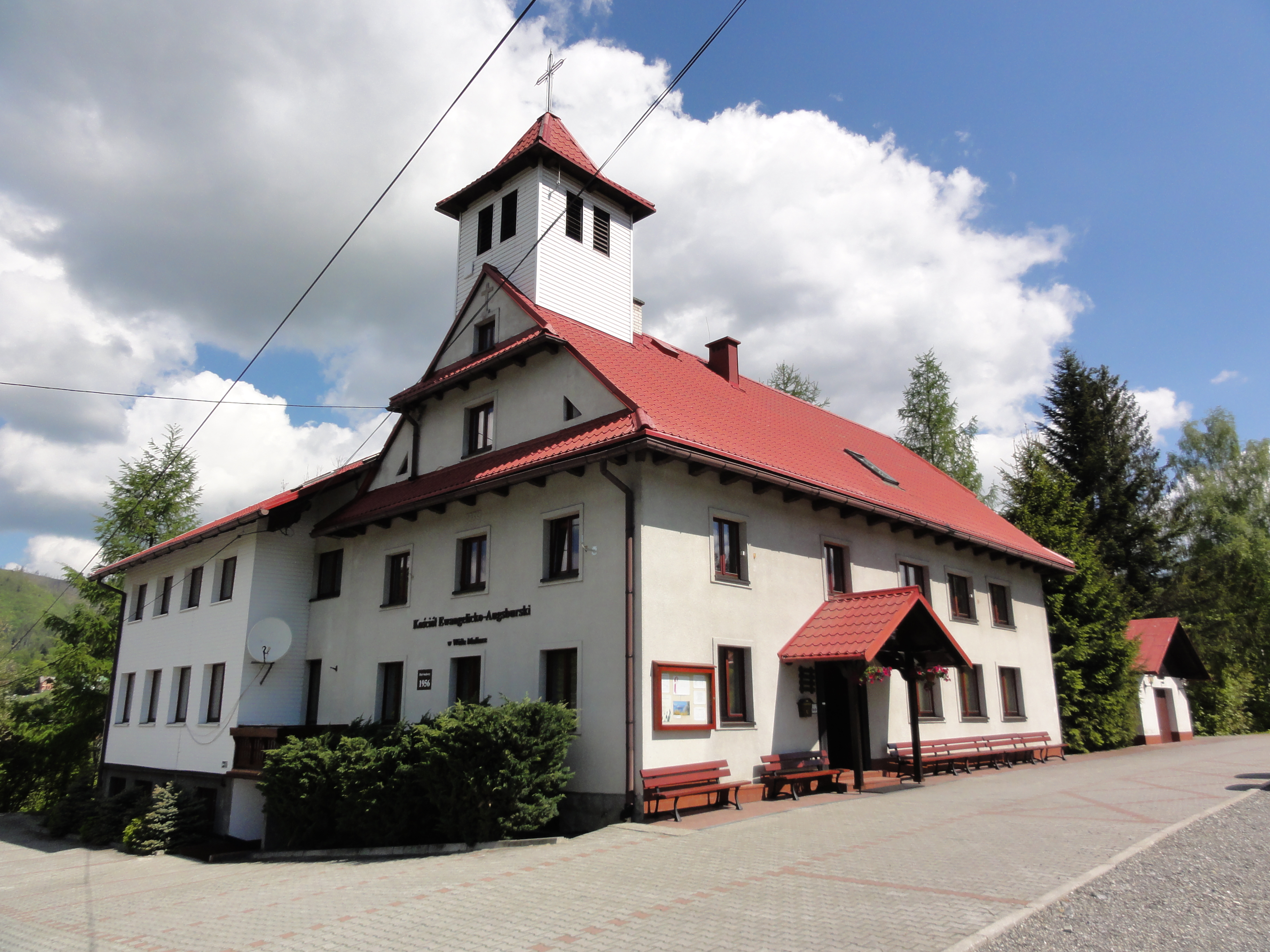 Lutheran church in Wisła-Malinka